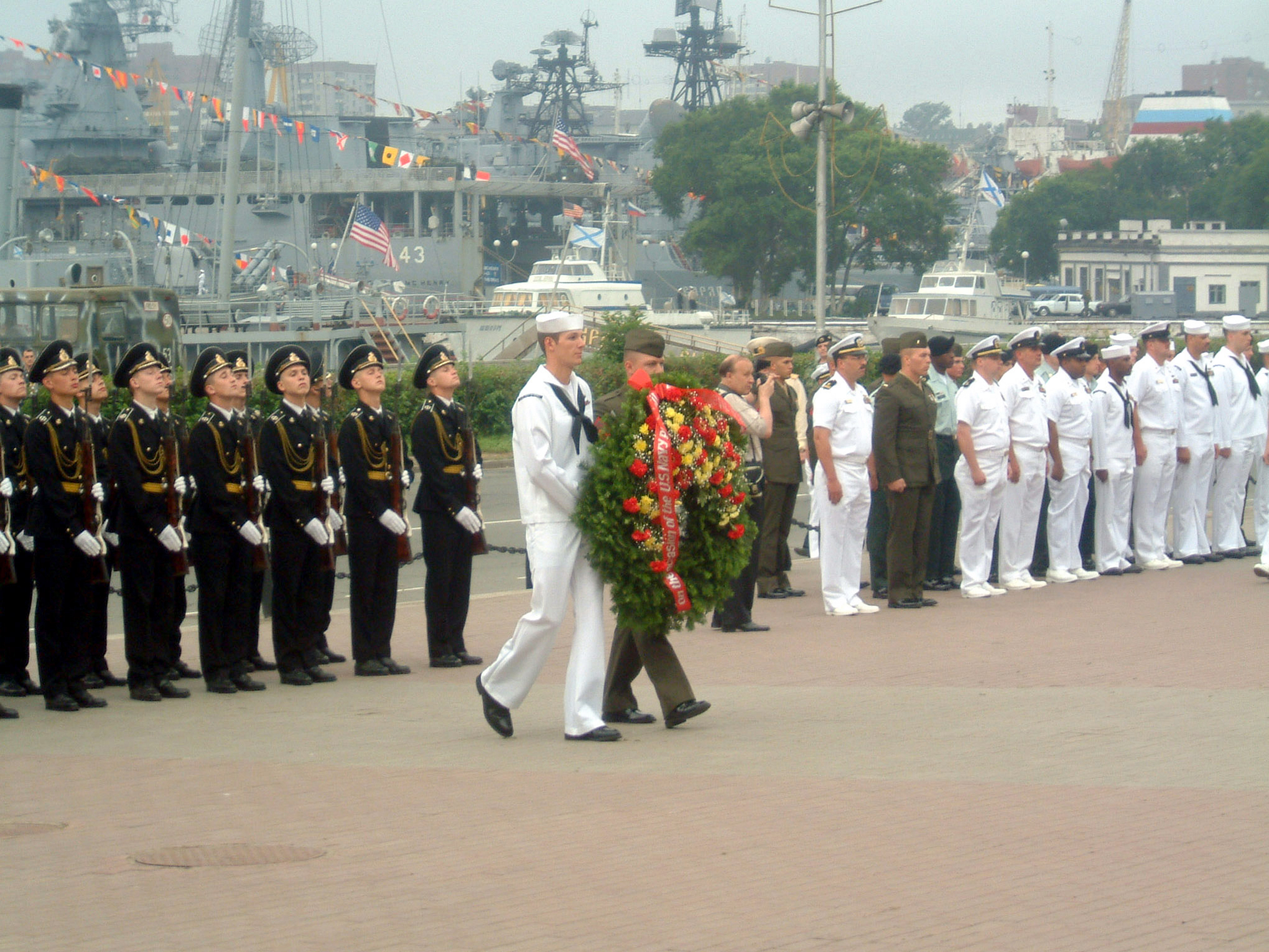 Vladivostok, Russia (Jul. 4, 2002) -- With the amphibious warfare ship USS Fort McHenry (LSD 43) in the background, a formation of Russian Sailors (left) and U.S. Sailors, Marines, and Soldiers participate in a wreath laying ceremony at the Eternal Flame of the Pacific Fleet Combat Glory Memorial in Vladivostok, Russia, honoring Russian and American military personnel who perished during WWII. The U.S. Navy's guided missile cruiser USS Chancellorsville (CG 62) and USS Fort McHenry are in Vladivostok for a goodwill visit. U.S. Navy photo by Journalist 3rd Class Neil Sealover. (RELEASED)